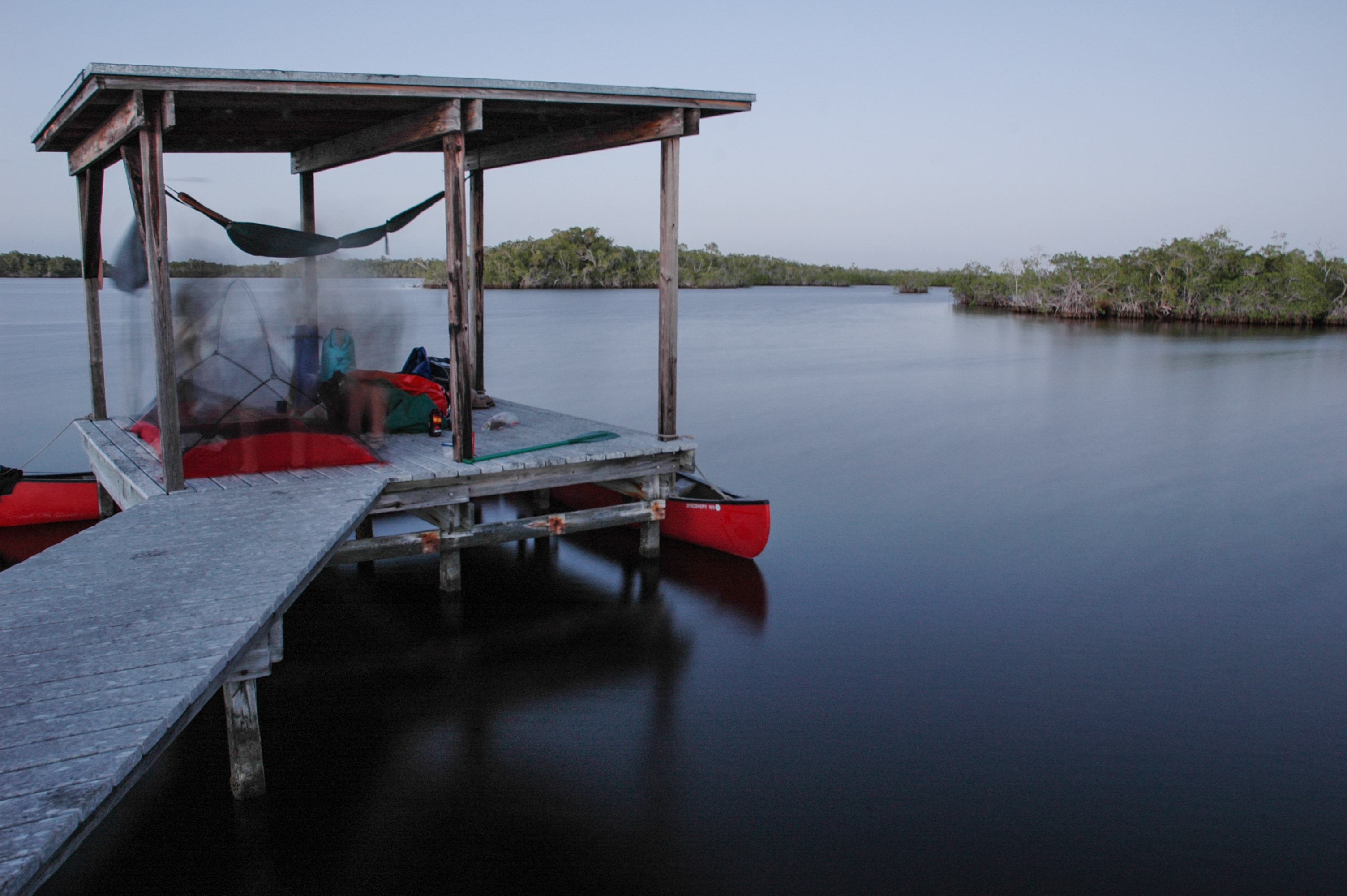 Camping chickee in Hell's Bay, Everglades National Park, Florida